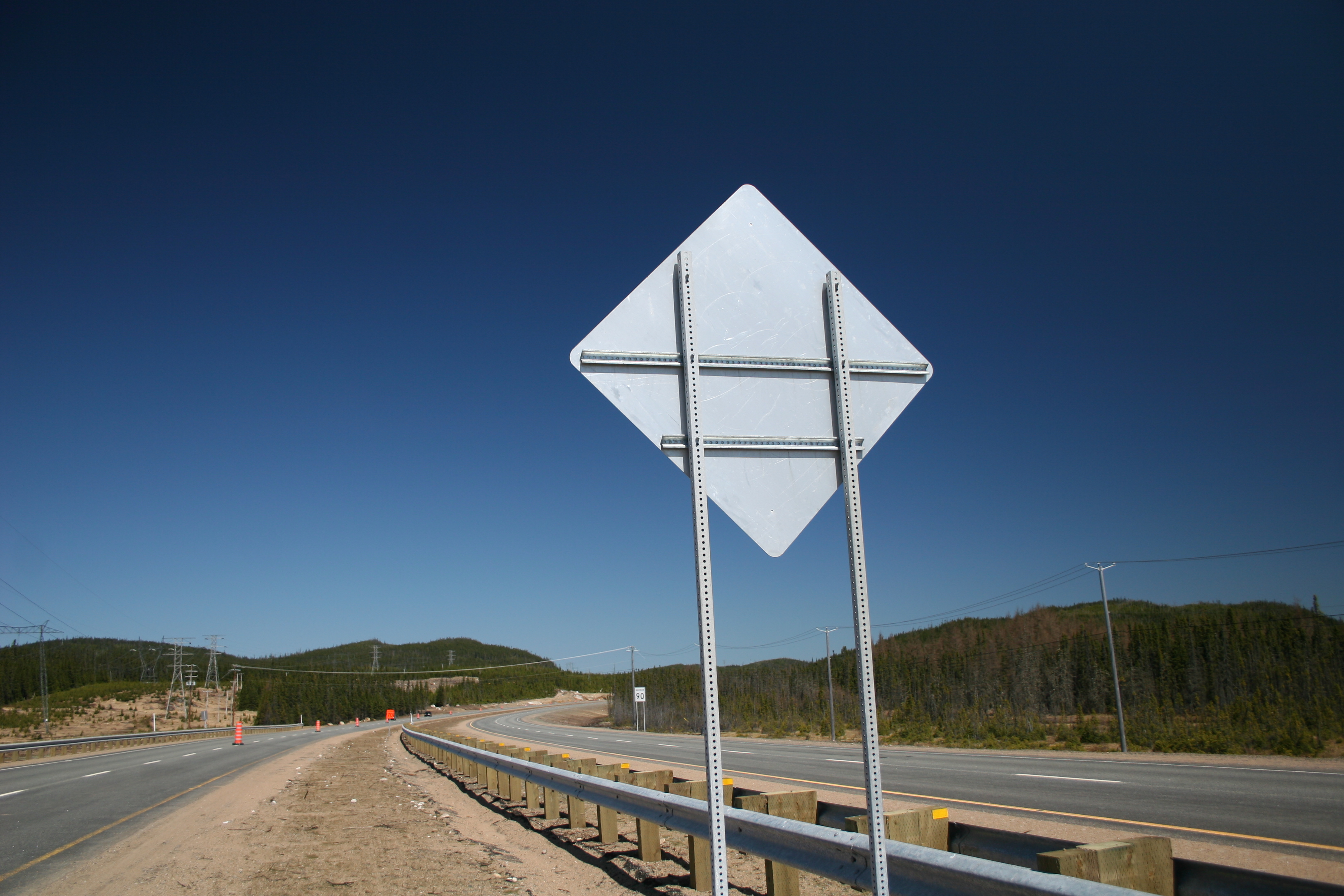 Construction of the road 175.